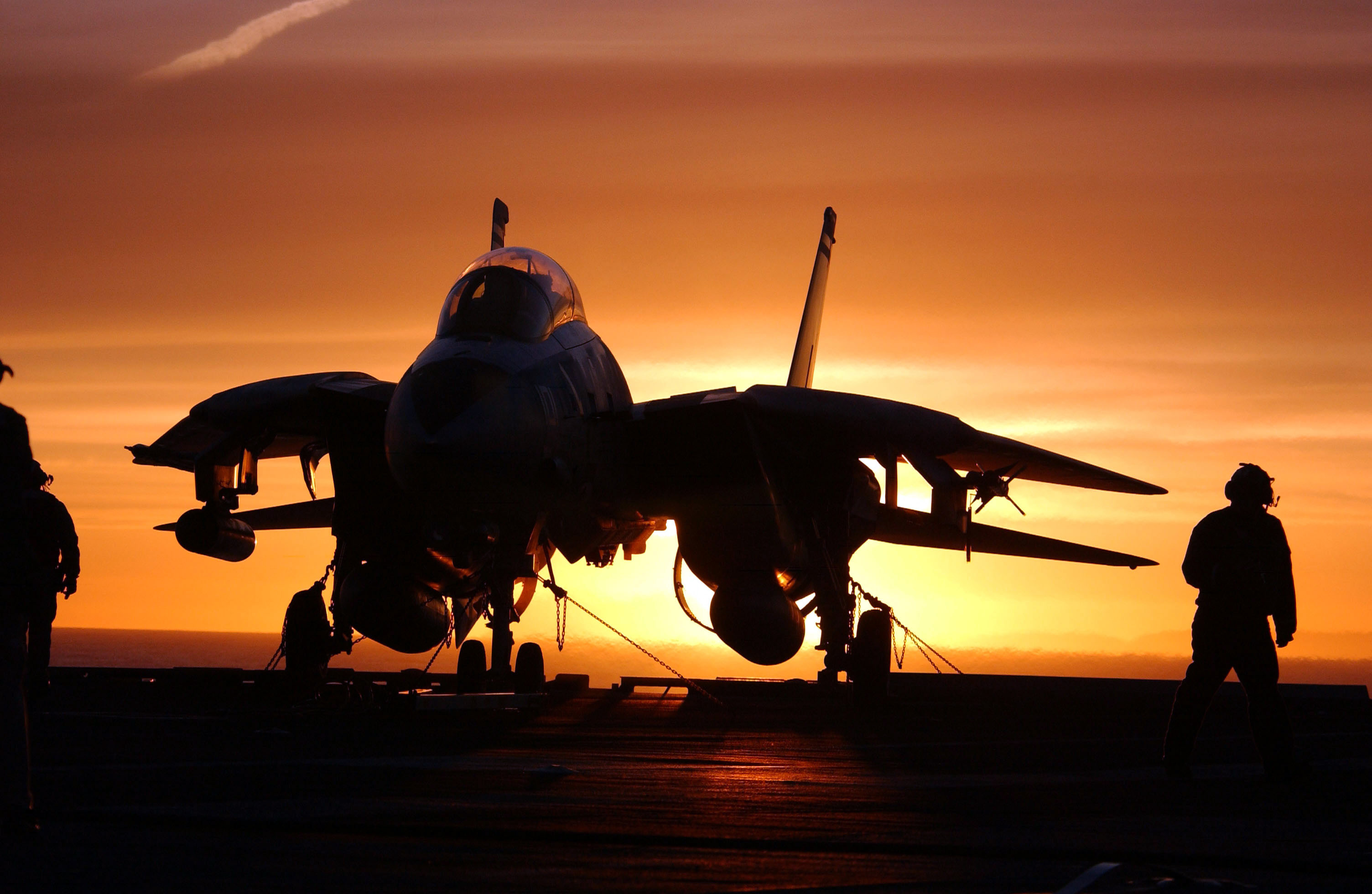 Gulf of Alaska (Jun. 3, 2004) - An F-14D Tomcat assigned to the "Tomcatters" of Fighter Squadron Three One (VF-31) sits on the flight deck aboard USS John C. Stennis (CVN 74) as the setting sun silhouettes the jet. Stennis and embarked Carrier Air Wing Fourteen (CVW-14) are currently participating in Exercise Northern Edge while on a scheduled deployment. U.S. Navy photo by Photographer's Mate 2nd Class Jayme Pastoric (RELEASED)